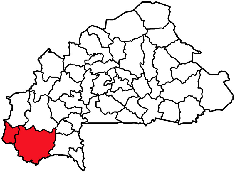 Map_of_catholic_diocese_of_Banfora, Burkina Faso